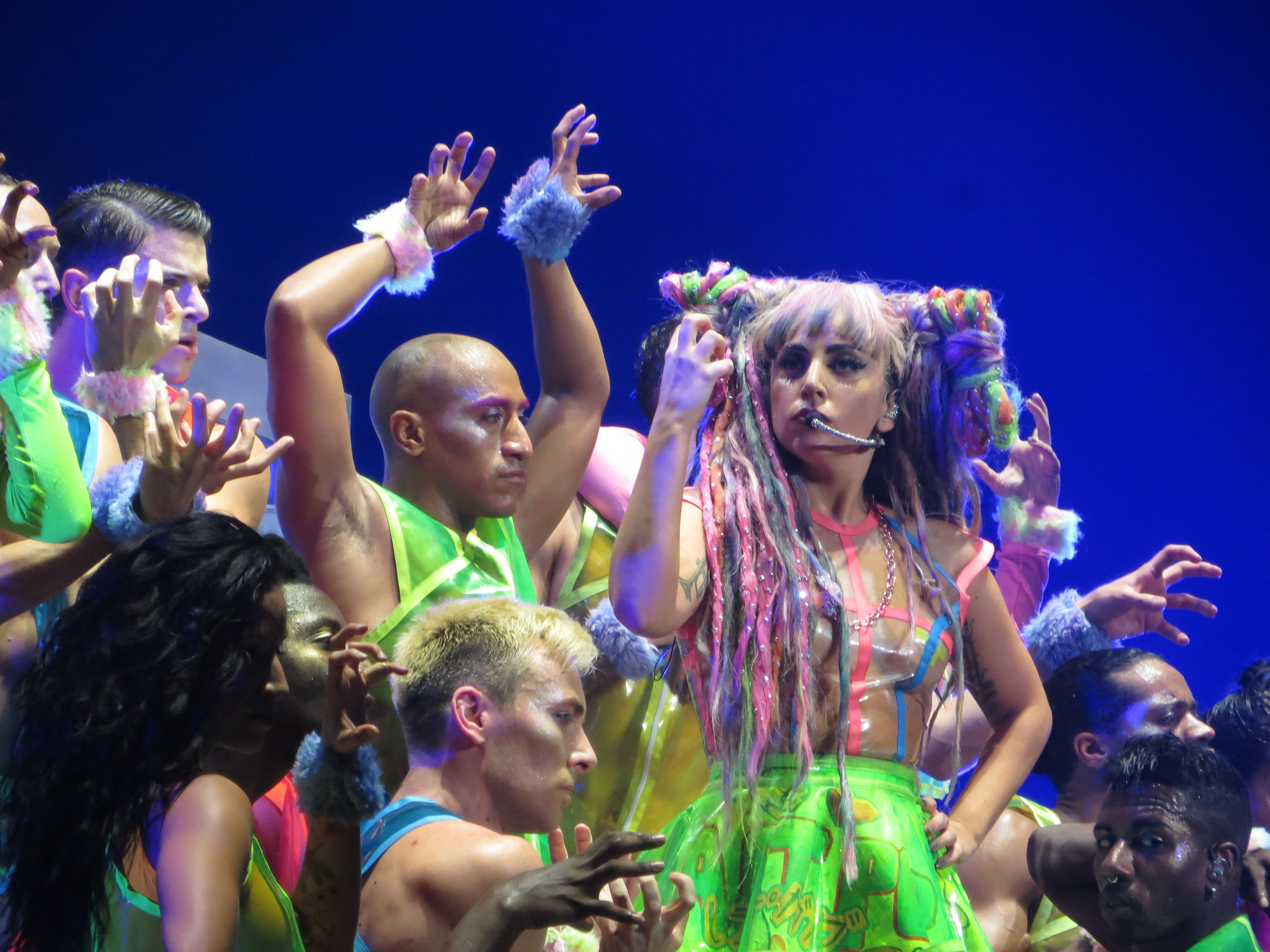 Lady Gaga performing at SEE Hydro in Glasgow, UK in Oct. 19, 2014.